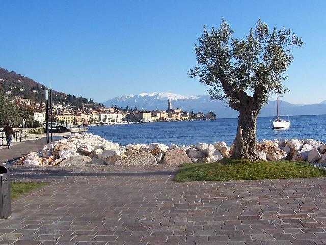 View of Salò - Province of Brescia, Italy - Lago di Garda and the Monte Baldo as background